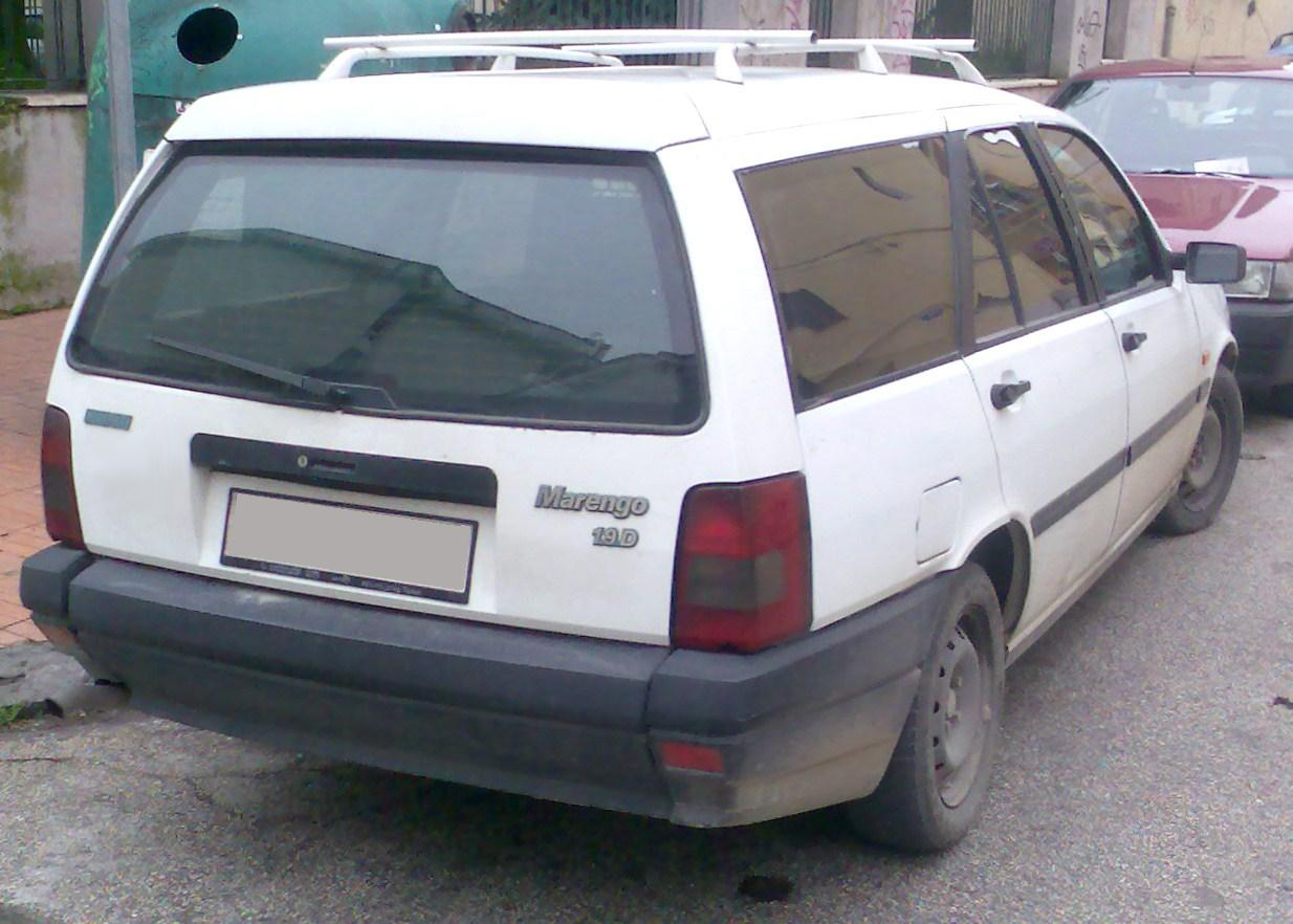 Fiat Marengo MK2